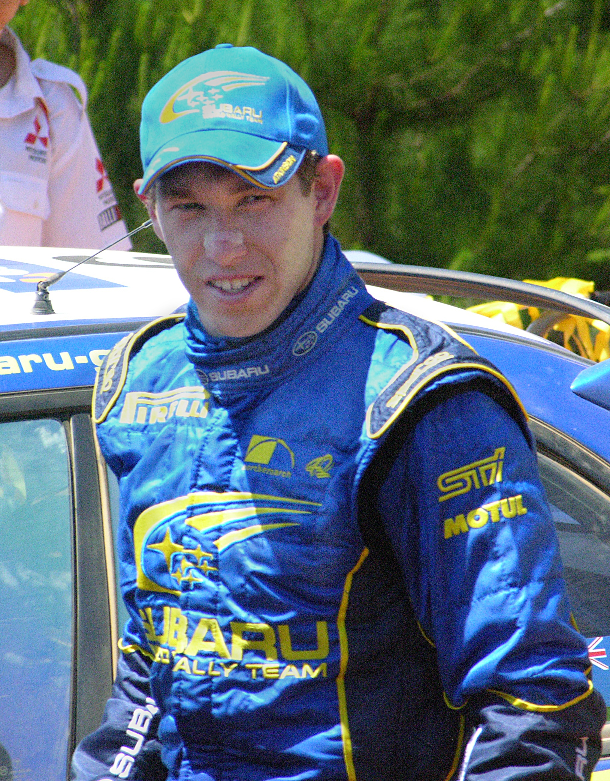 Australian World Rally Championship driver Chris Atkinson at the Park Road media point on the second day of the 2006 Telstra Rally Australia.